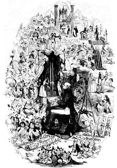 Frontispiece of Martin Chuzzlewit by Phiz (1844).